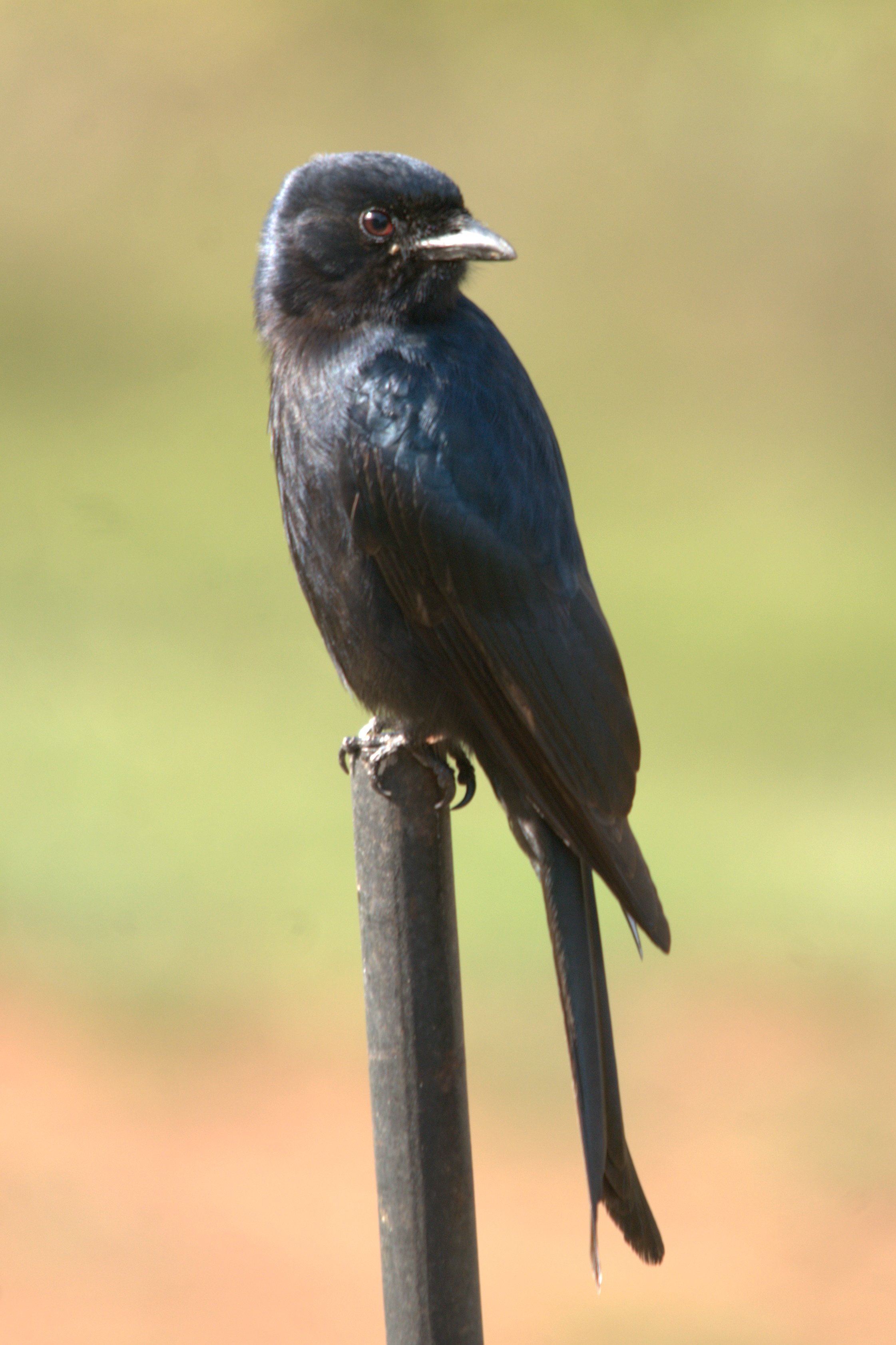 Fork-tailed Dronga